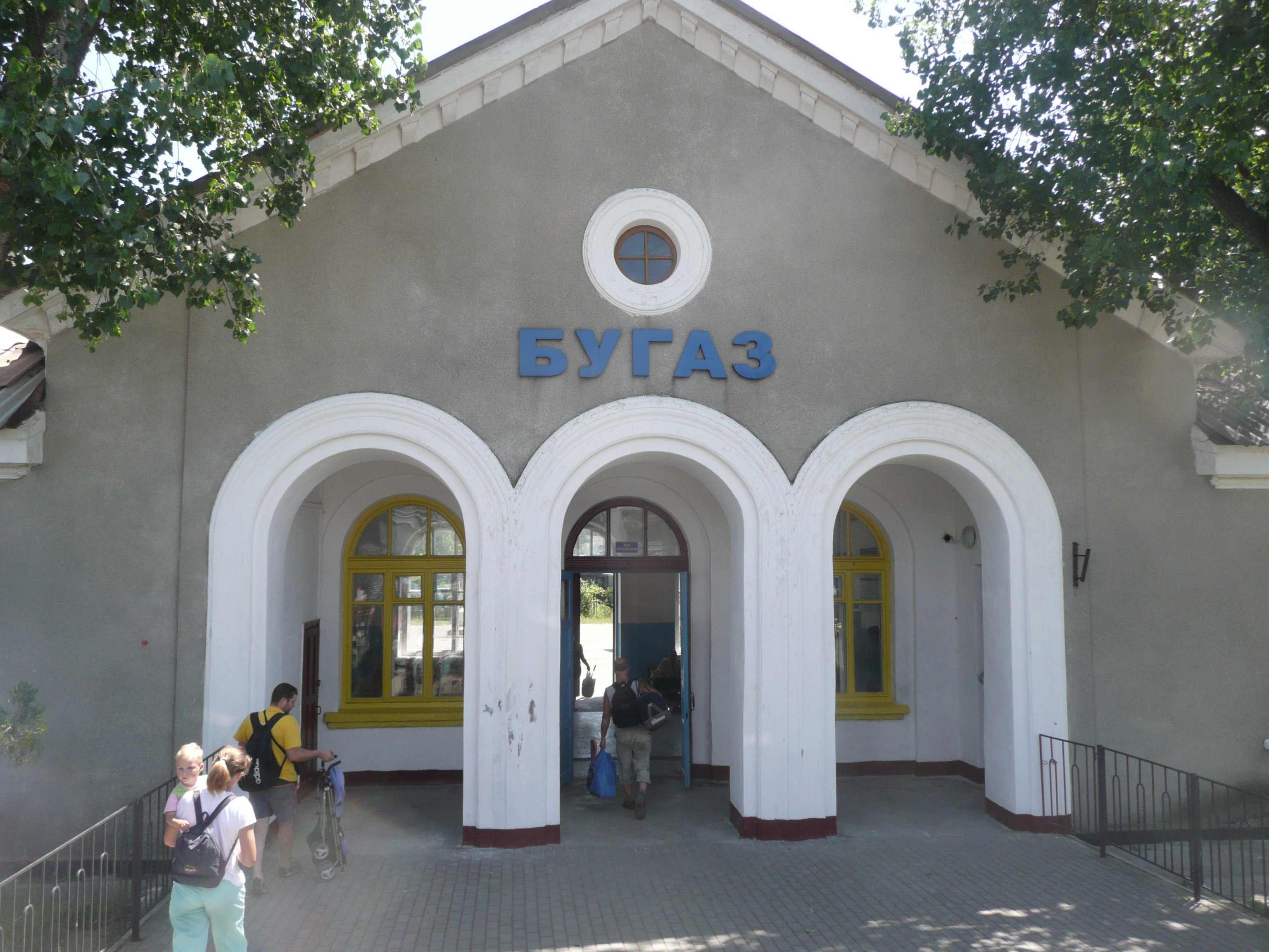 Bugaz Station, Zatoka, Odessa Oblast